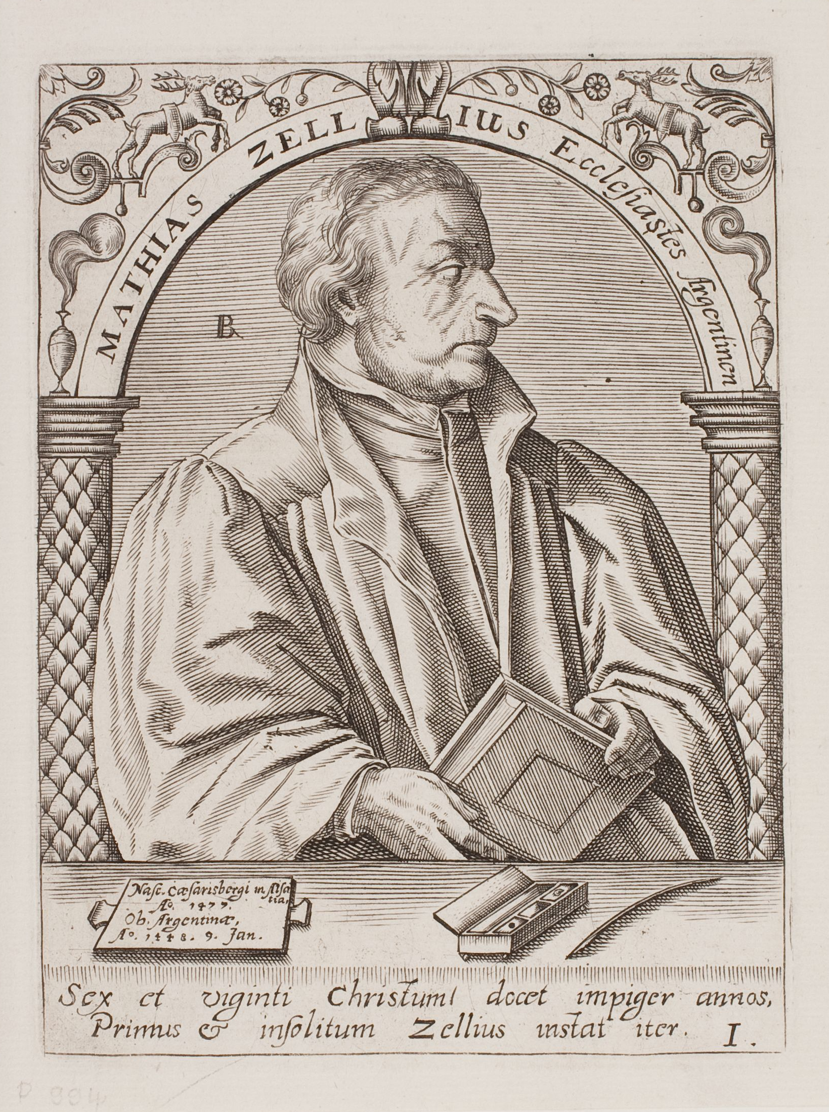 Portrait of Matthäus Zell, Strasbourg reformer (1477–1548)